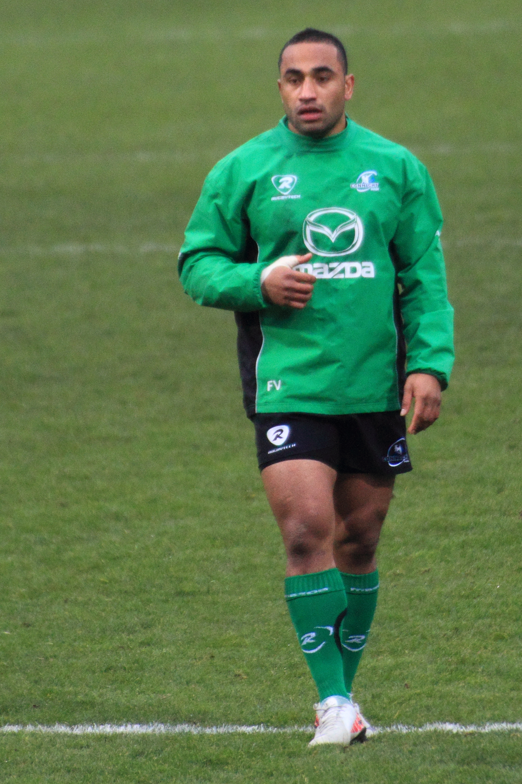 Heineken Cup 2011-2012 — 14 January 2012, Stade Ernest-Wallon. Match between: Stade toulousain — Connacht Rugby